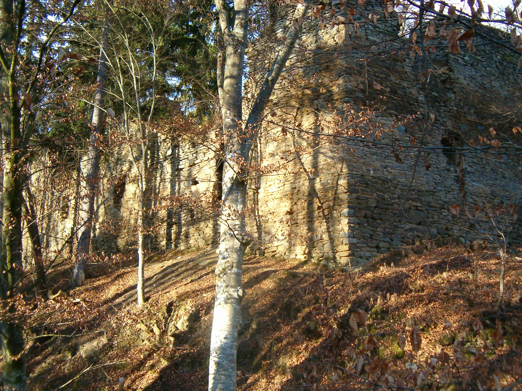 Karlův Hrádek near Hluboká nad Vltavou